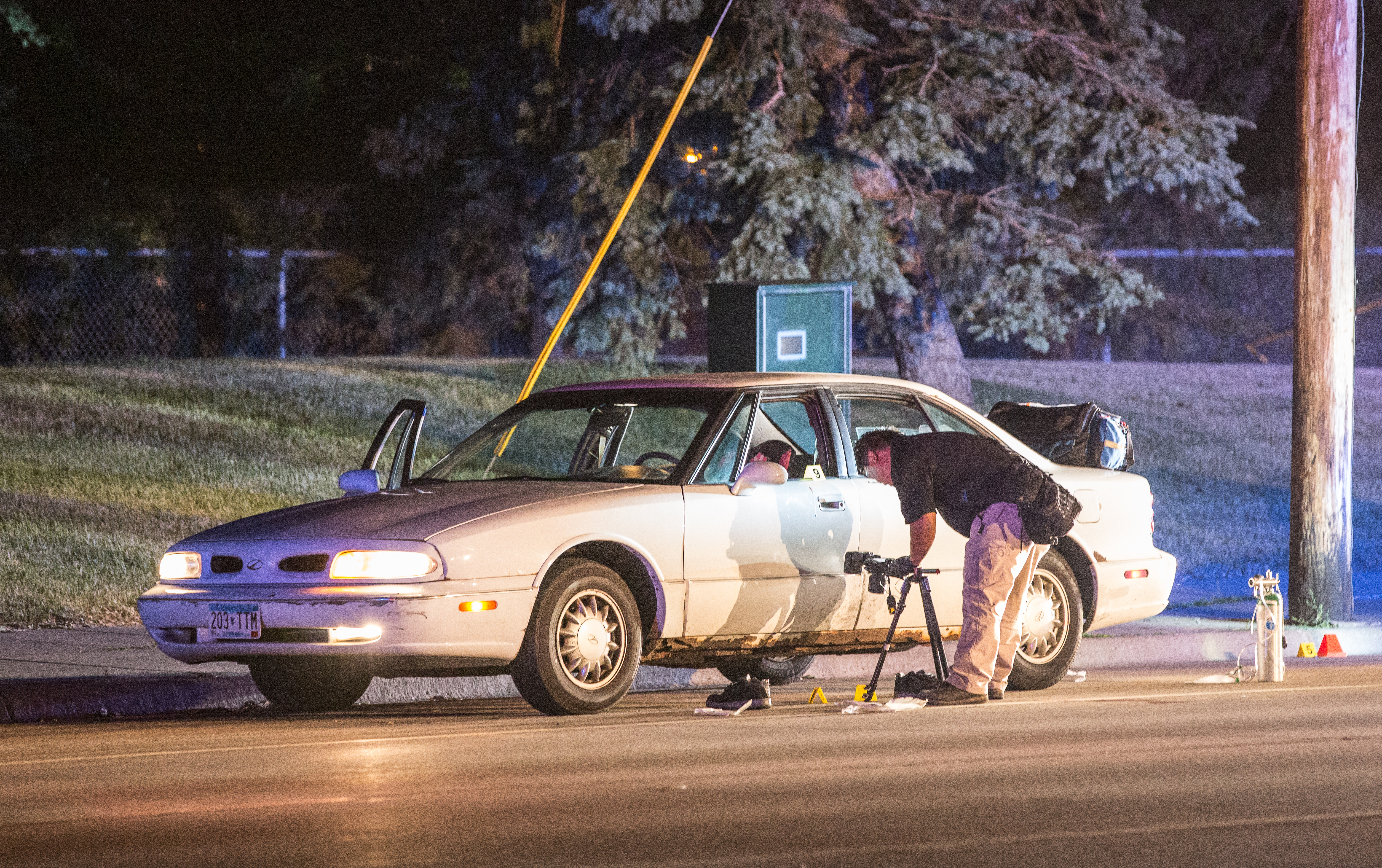 Minnesota Bureau of Criminal Apprehension (BCA) investigators process the scene of where a St. Anthony Police officer shot and killed 32-year-old Philando Castile in a car near Larpenteur Avenue and Fry Street in Falcon Heights, Minnesota, on July 6, 2016.